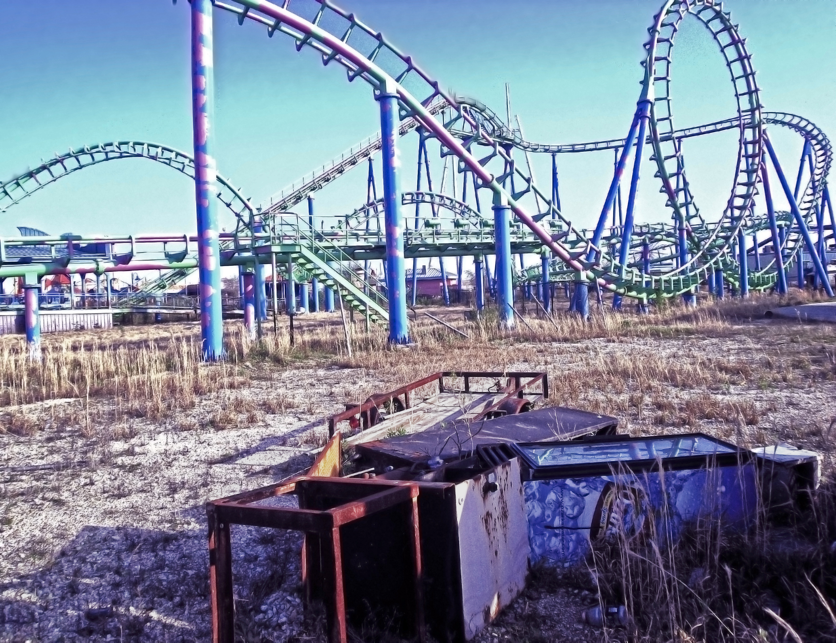 A coaster called Jester in Six Flags New Orleans. The coaster is SBNO since hurricane Katrina hit the park. This coaster was fabricated by Vekoma and is a standard layout ironically called 'hurricane' (source: [1])